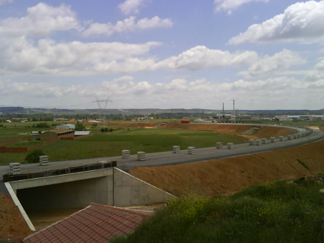 Construction of the railway.